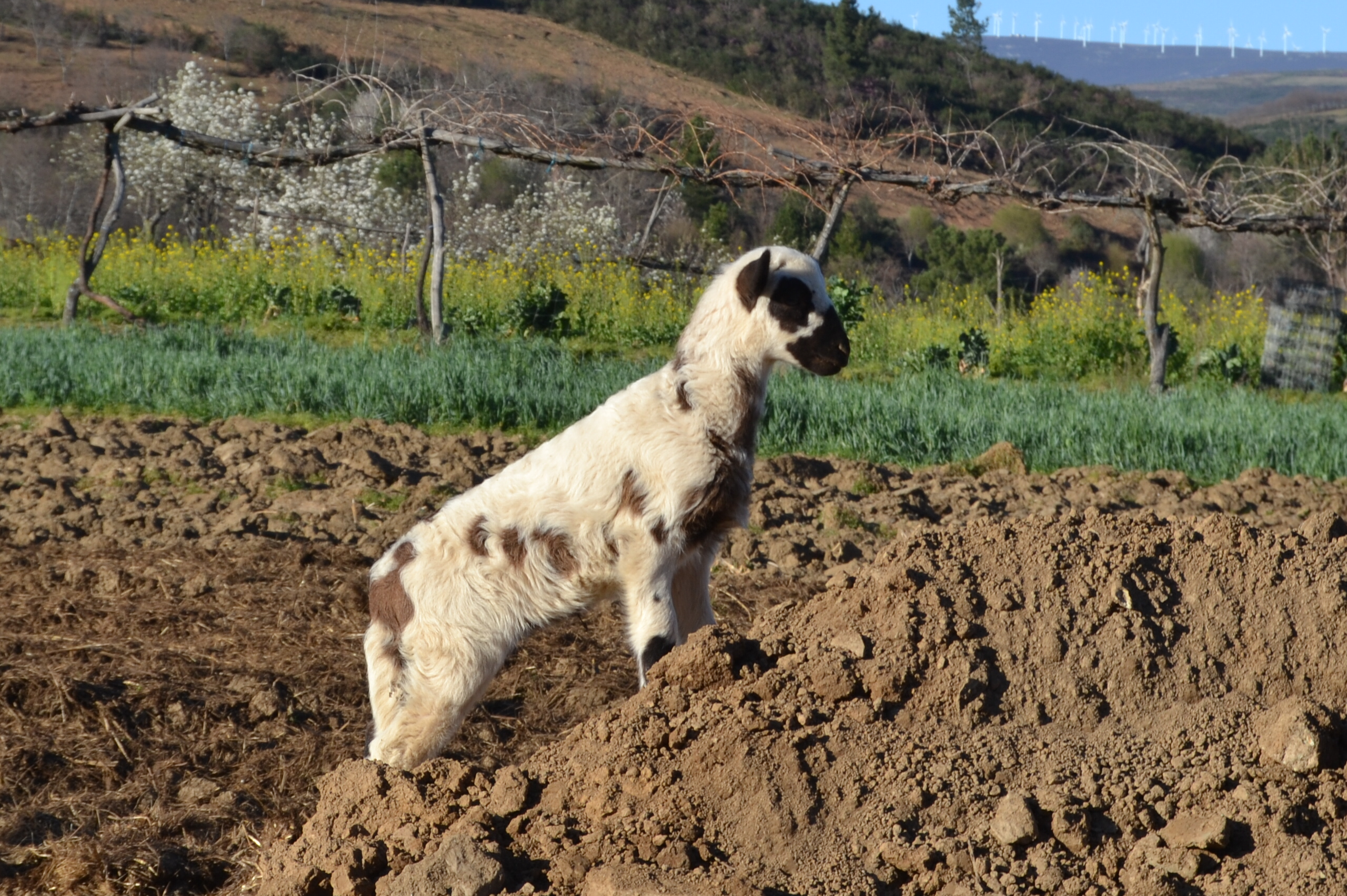 This is a photography of a Site of Community Importance in Portugal with the ID: PTCON0002. Natura2000 entry, EEA entry